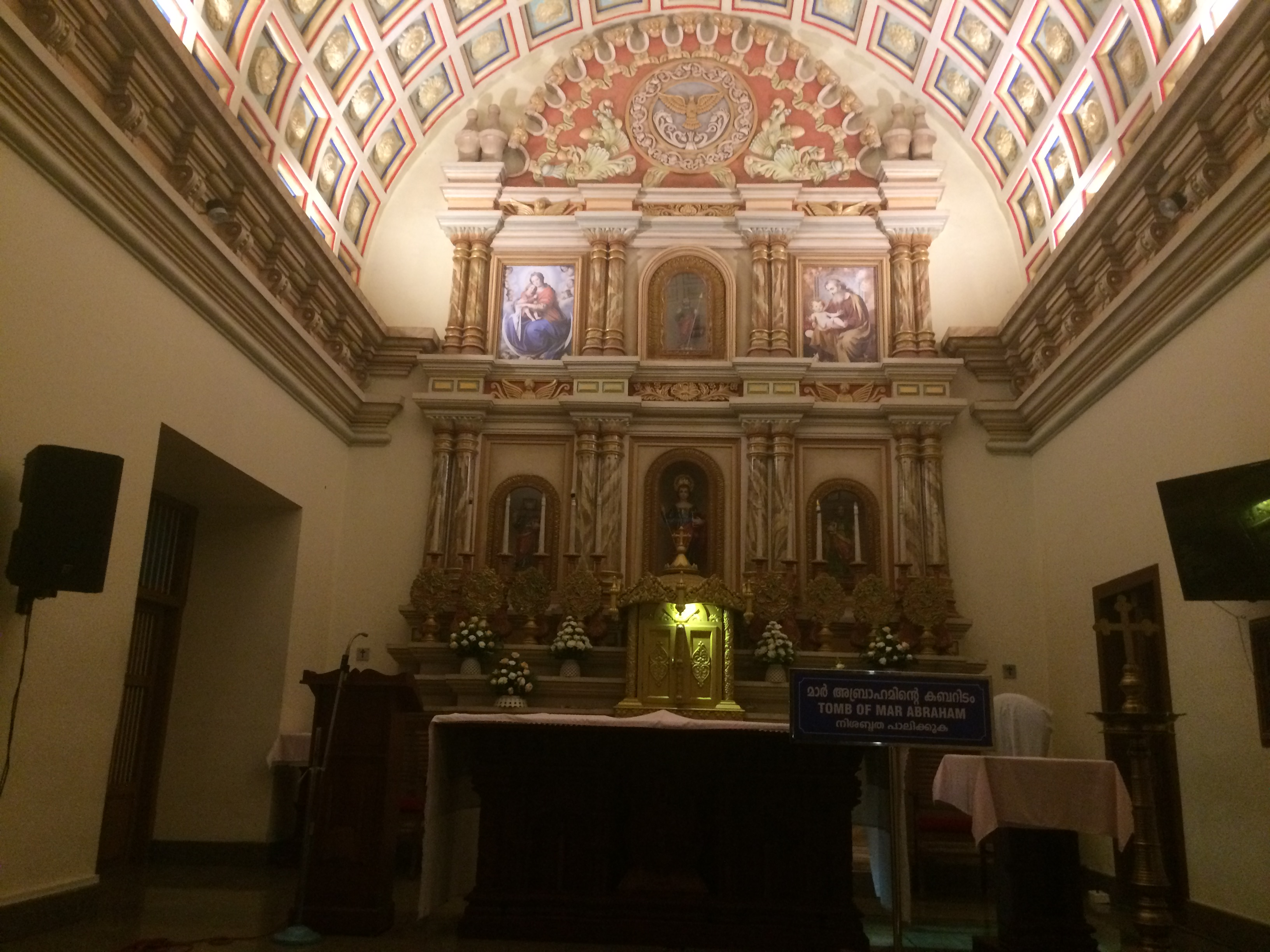 Madbaha of Mar Hormizd Syro-Malabar Church, Angamaly